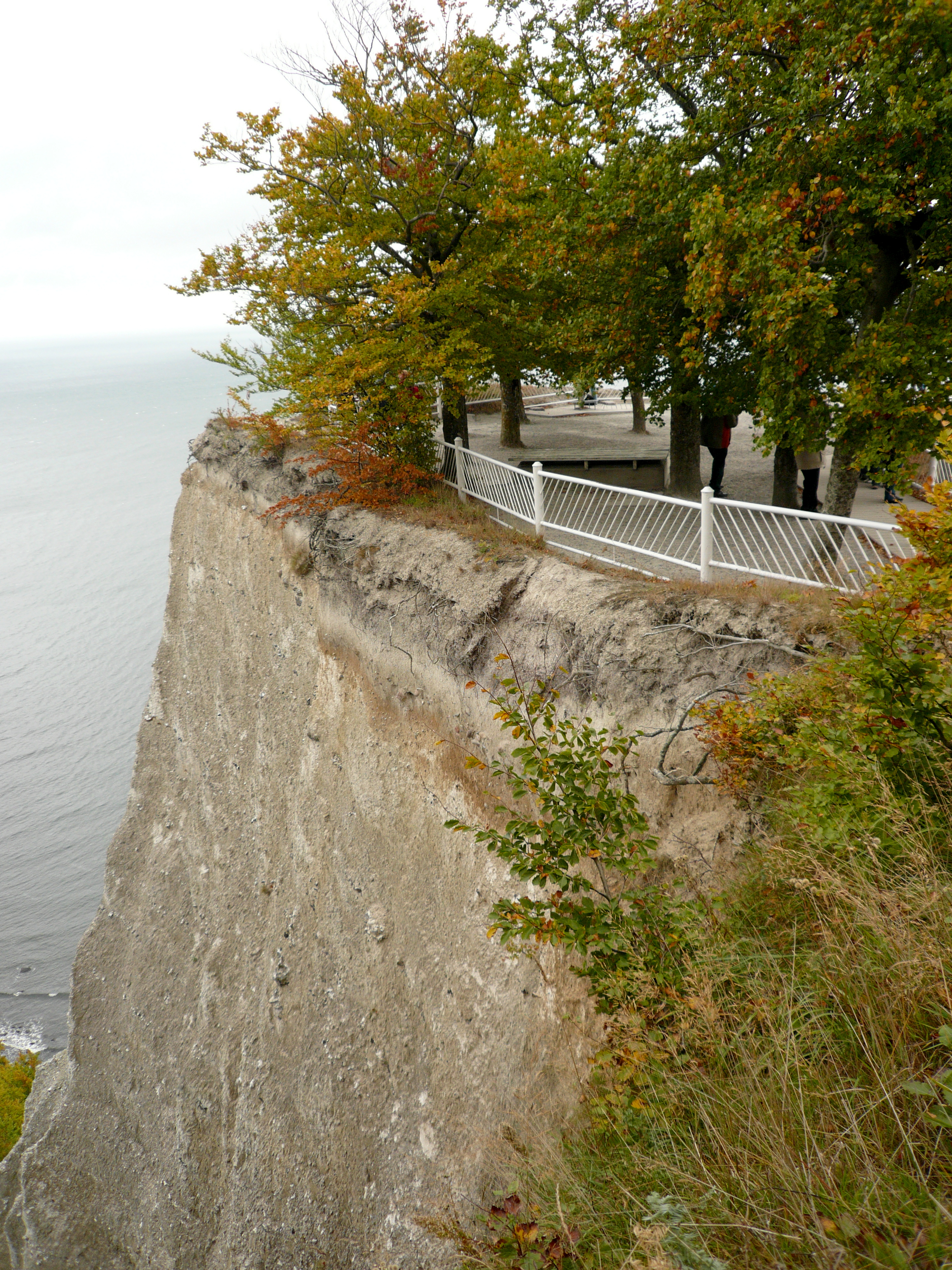 Panorama platform on top of hill Koenigsstuhl, Ruegen